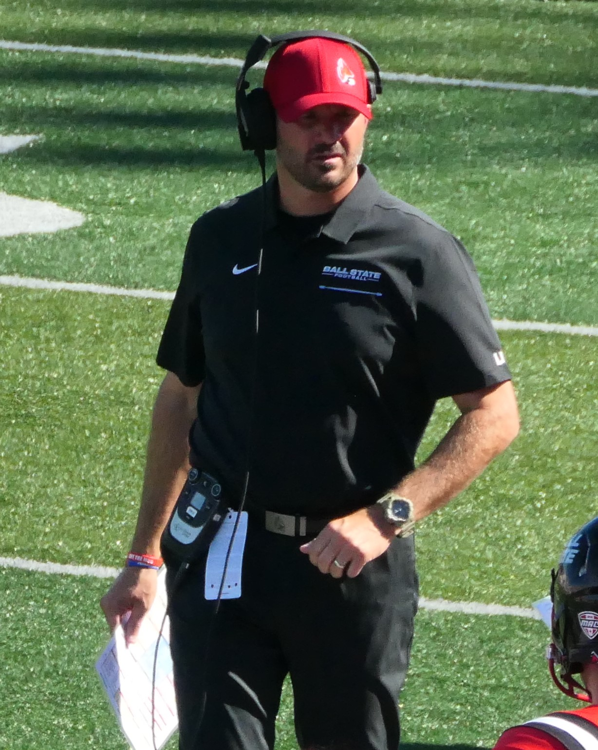 Mike Neu coaching the Ball State Cardinals against the Florida Atlantic Owls in 2019. (1)